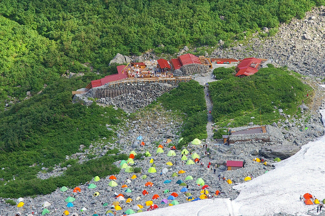 Karasawa Hyutte hut seen from Mount Kitaho in the Hida Mountains, Japan